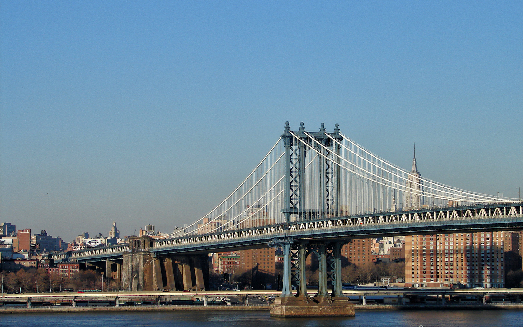 Partial view of Manhattan Bridge, the skyline and the Empire State Building. Viewed from the Brooklyn Bridge, on December, 2005.